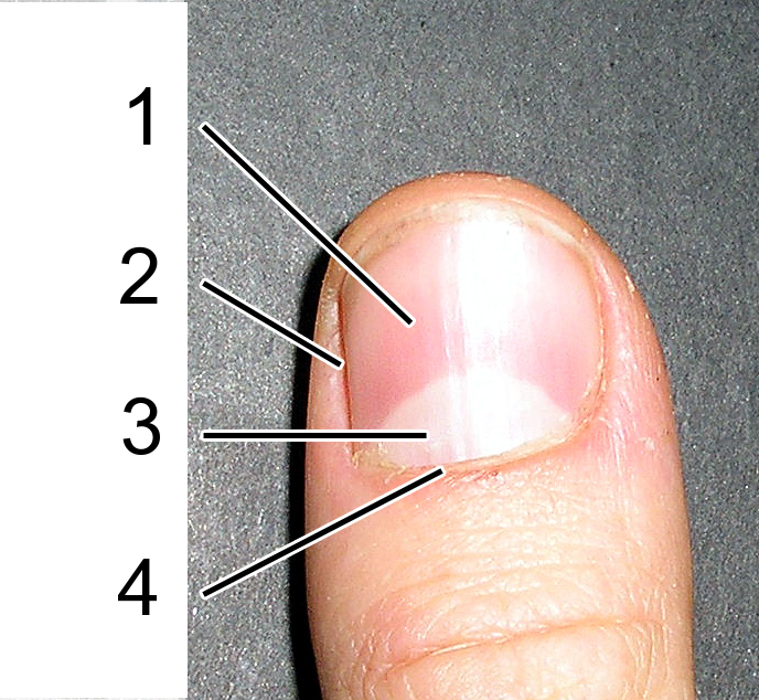 Dumb version without legend for reuse in other languages if desired